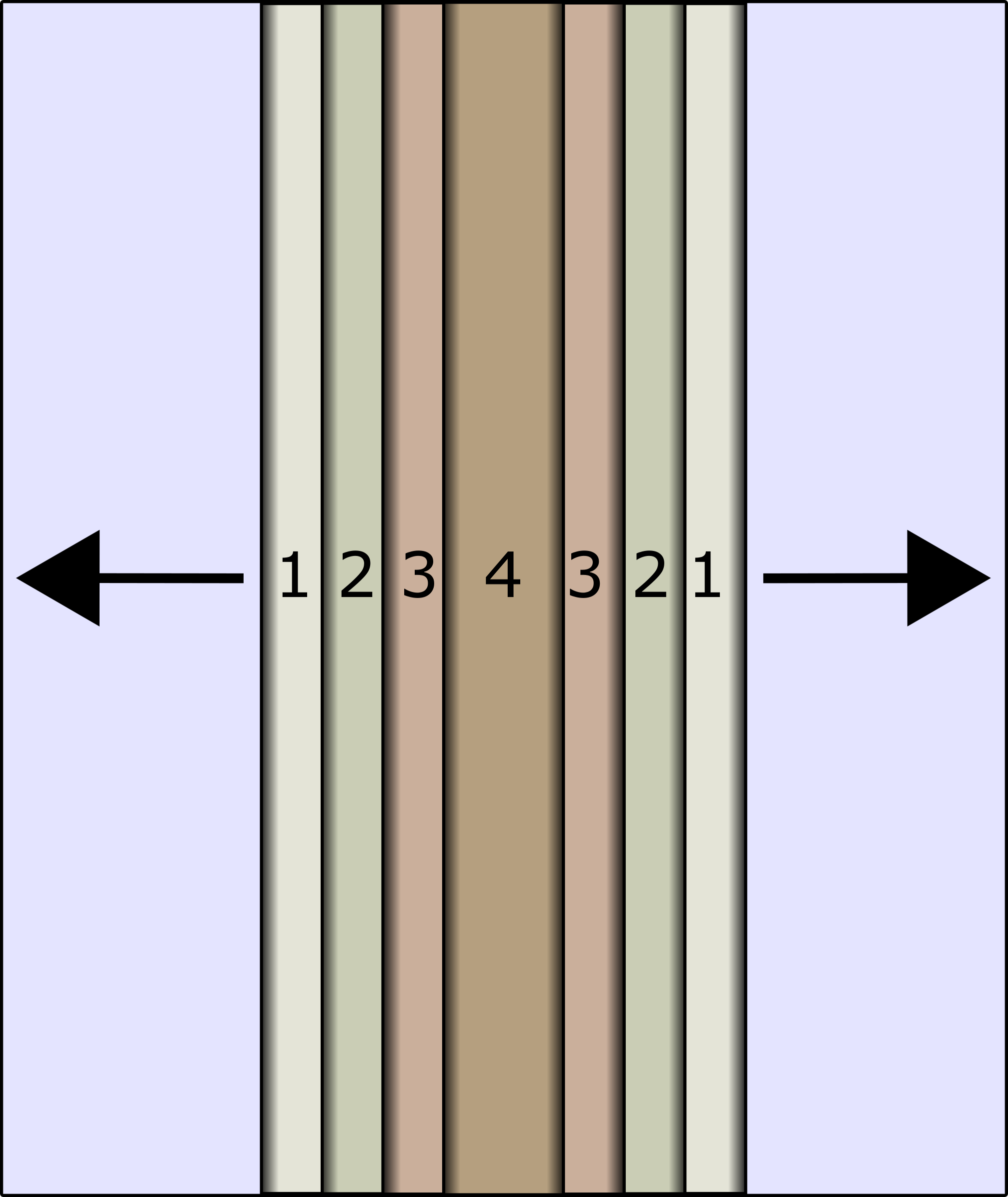 Simple cartoon to show how one-sided chilled margins develop during repeated dyke intrusion at the same location